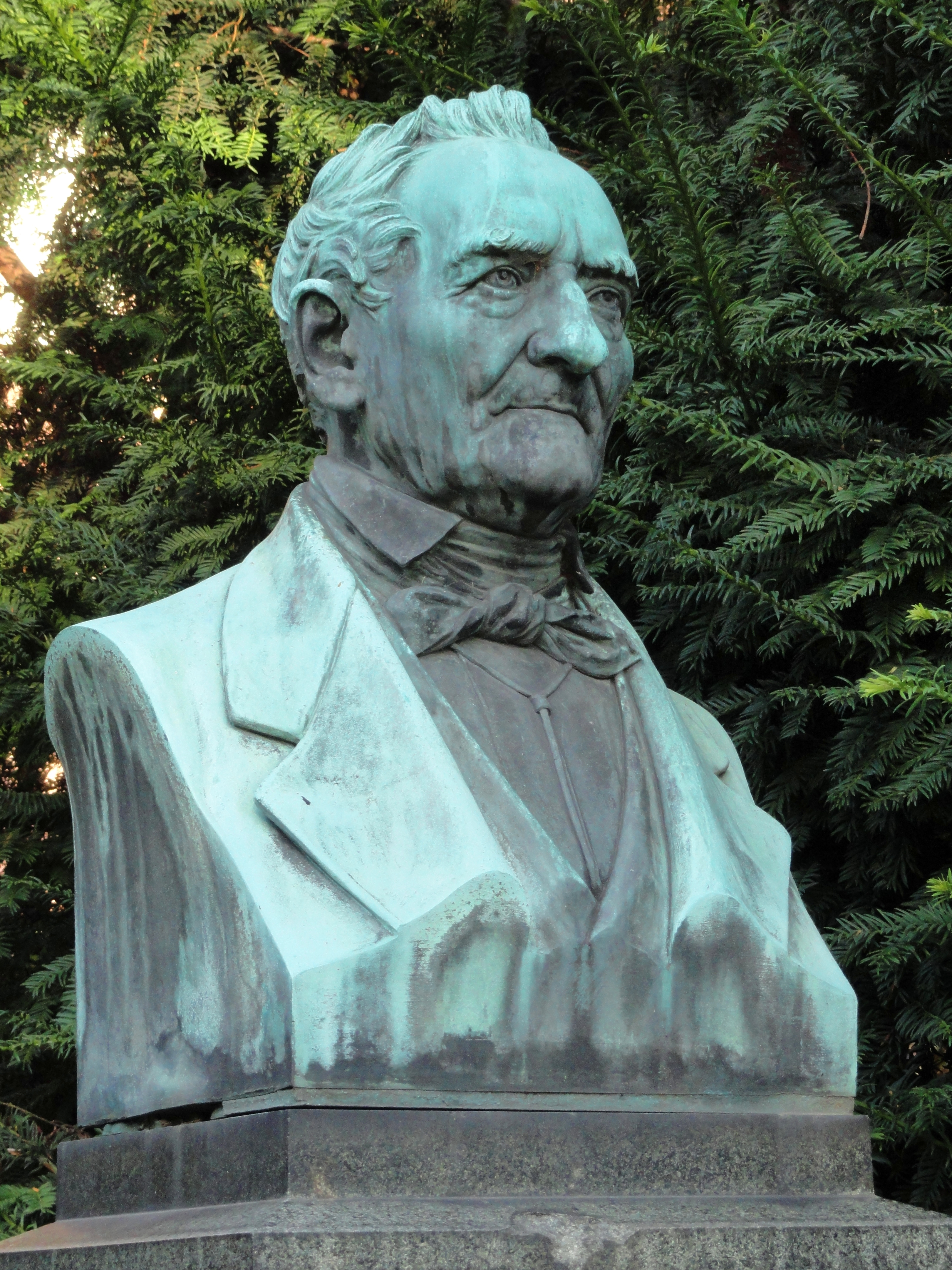 Bust of Rudolf Christian Böttger by Friedrich Schierholz, near the Naturmuseum Senckenberg, Frankfurt am Main, Germany. This artwork is old enough so that it is in the public domain.